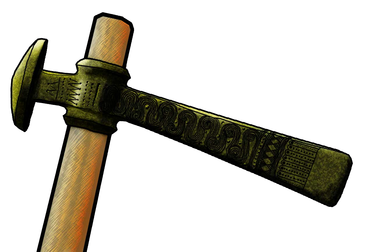 Combat hammer-axe from the Early Bronze Age (1800 BC-1500 BC). It is characteristic from Únětice culture, but sometimes it is called «Nestor type axe» because of mycenaean influence.